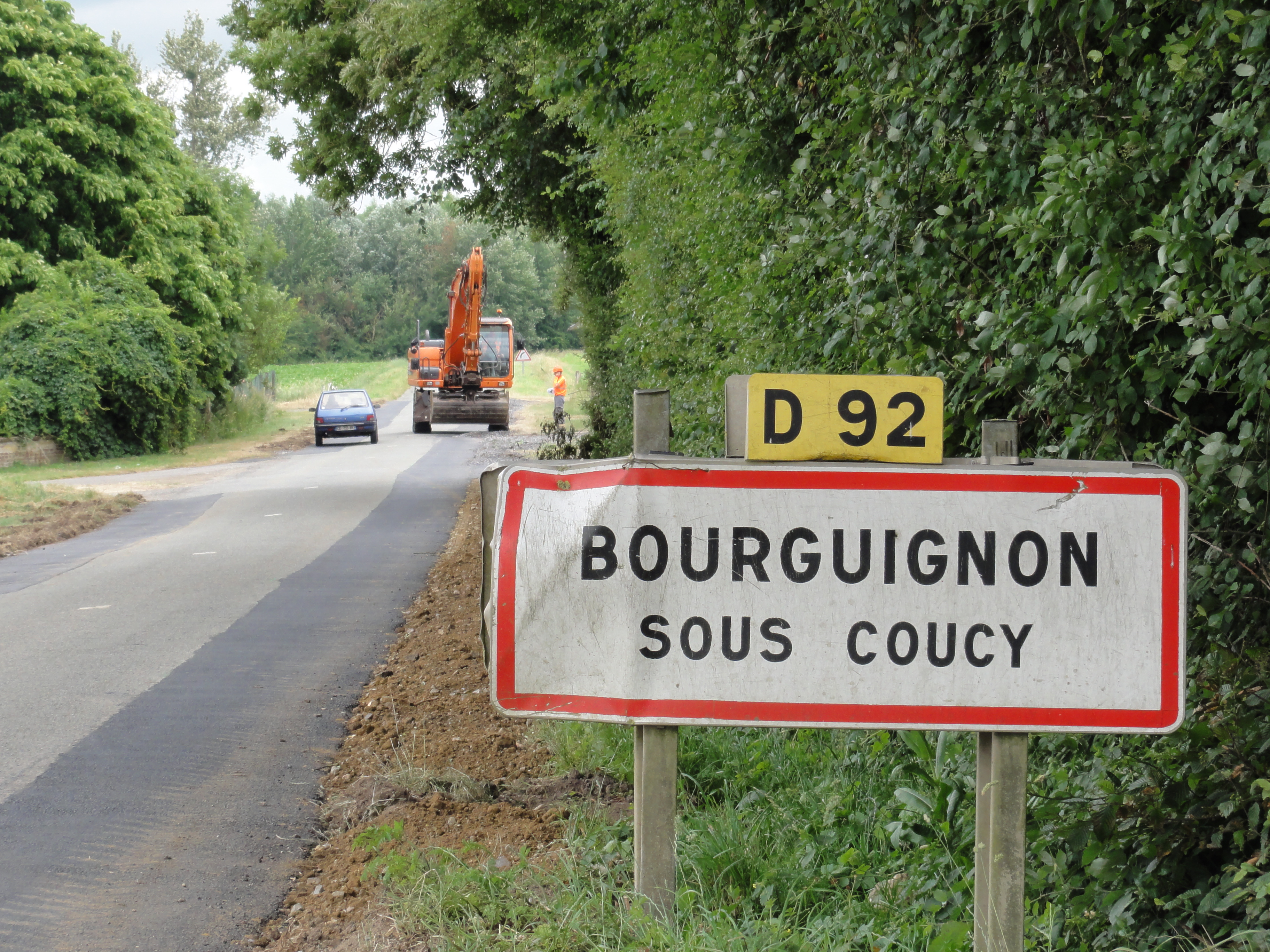 Bourguignon-sous-Coucy (Aisne) city limit sign